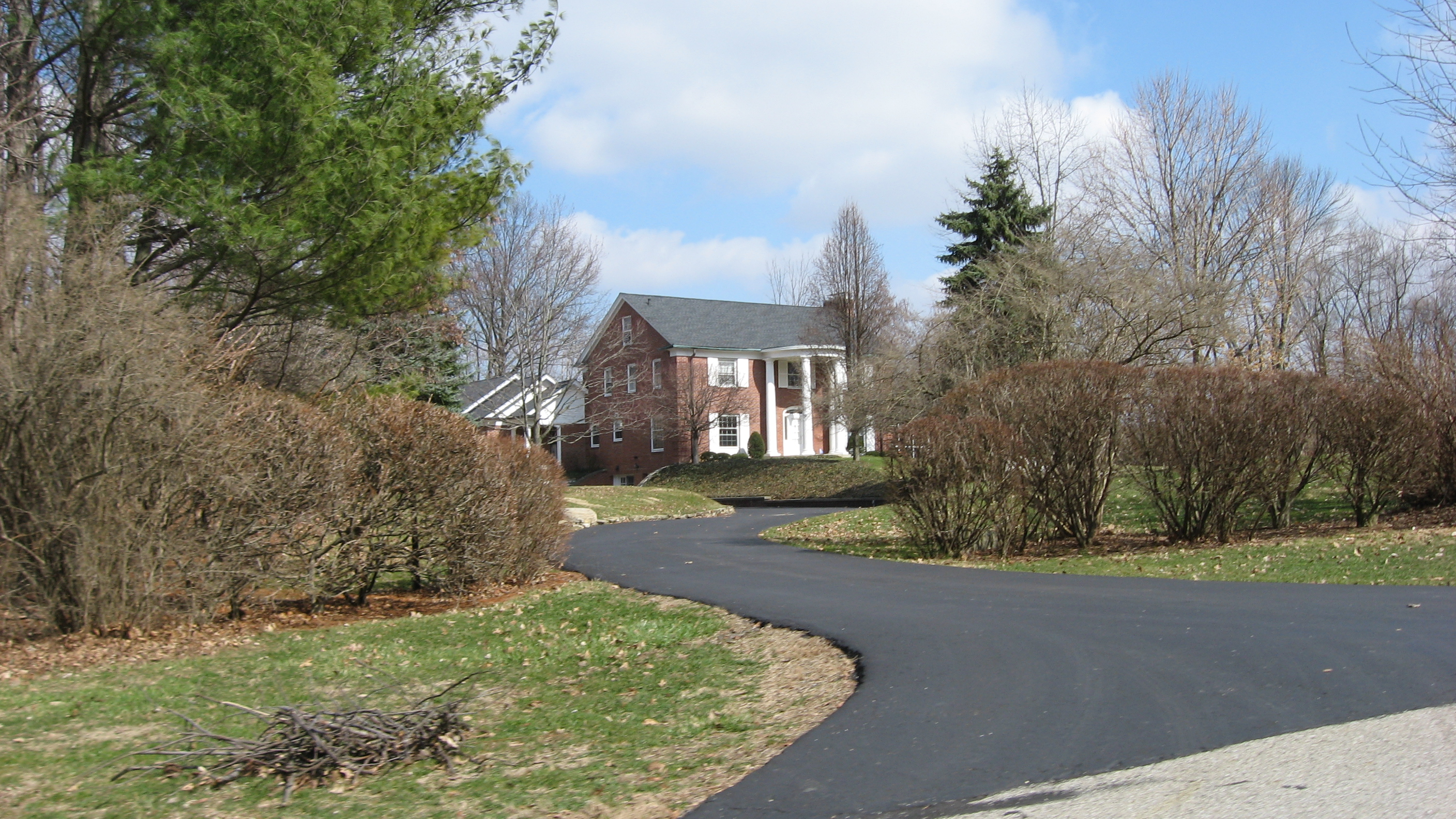 A house on the eastern side of Lawrence Drive in Indianapolis, Indiana, United States. The surrounding neighborhood is part of the Brendonwood Historic District, a historic district that is listed on the National Register of Historic Places.